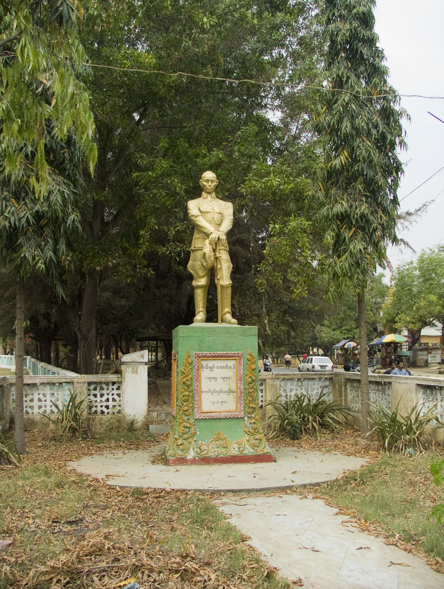 Aung San statue, Myanmar